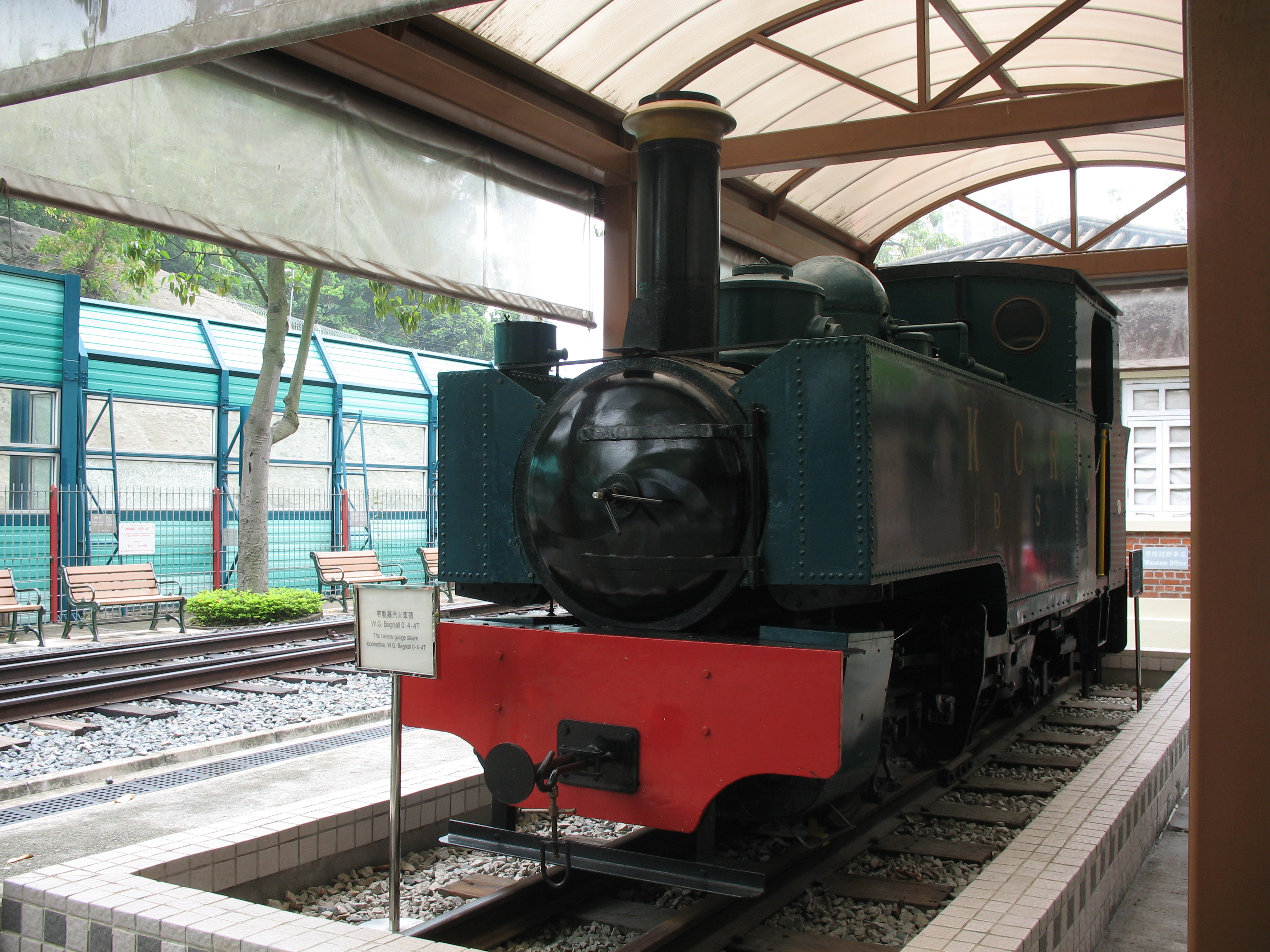 Bagnall 0-4-4T Narrow gauge steam locomotive at Hong Kong Railway Museum